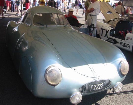 Photograph of the front of a 1939 Porsche 64 taken by SamH at the 2003 Goodwood Festival of Speed.